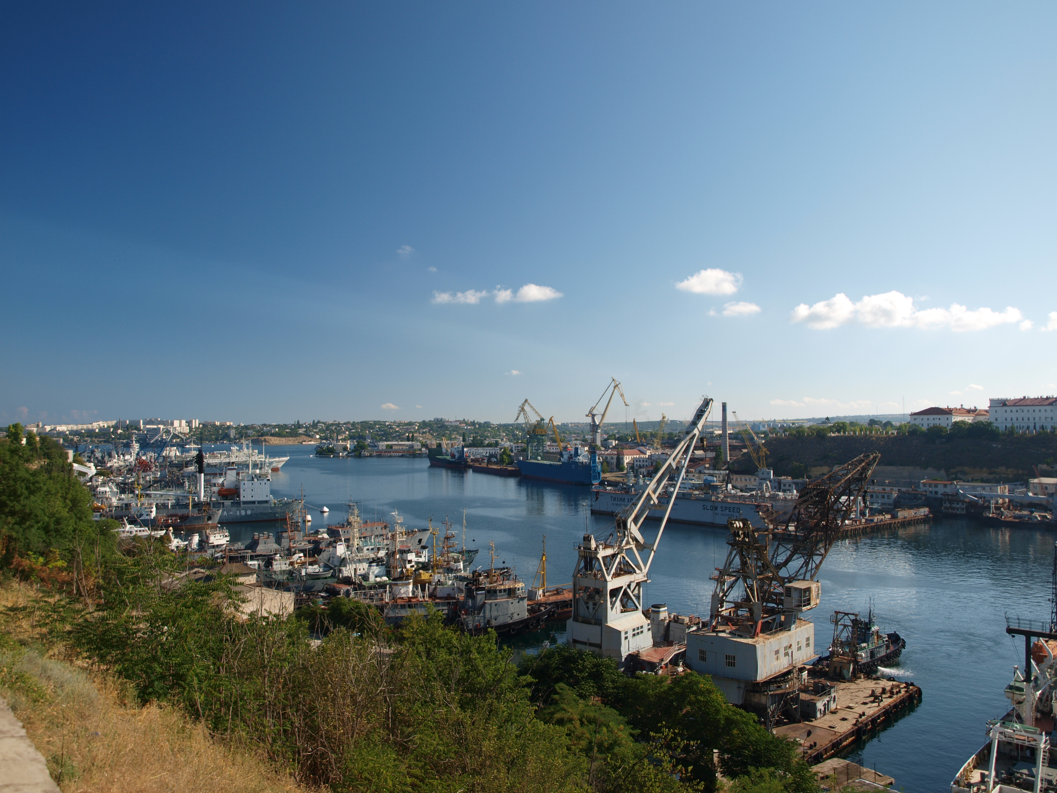 Sevastopol, Ukraine.